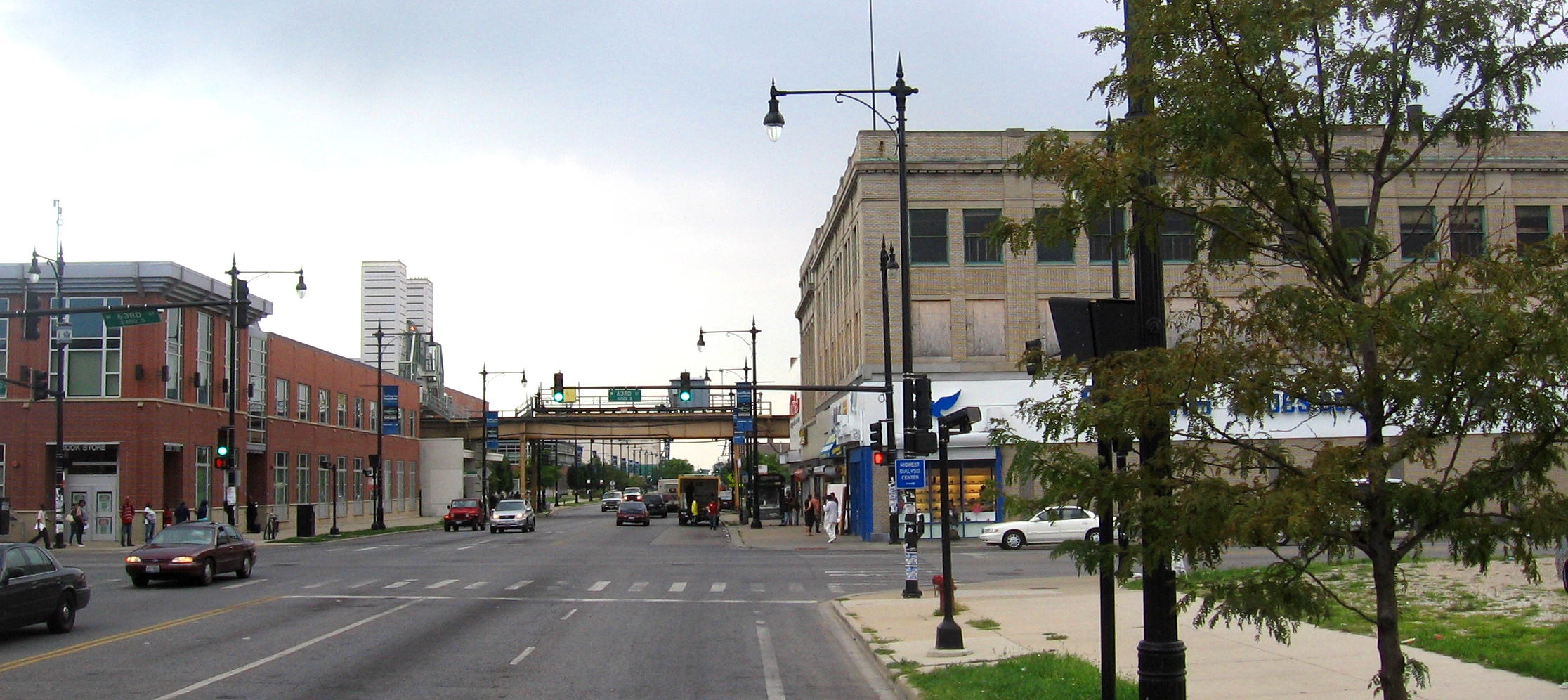 A center of the Englewood neighborhood in Chicago. This is the intersection of 63rd and Halsted, looking south. The Halsted Green Line 'L' stop can be seen in the background (in particular, note the two towers), while Kennedy-King College can be seen on the left of the photo.